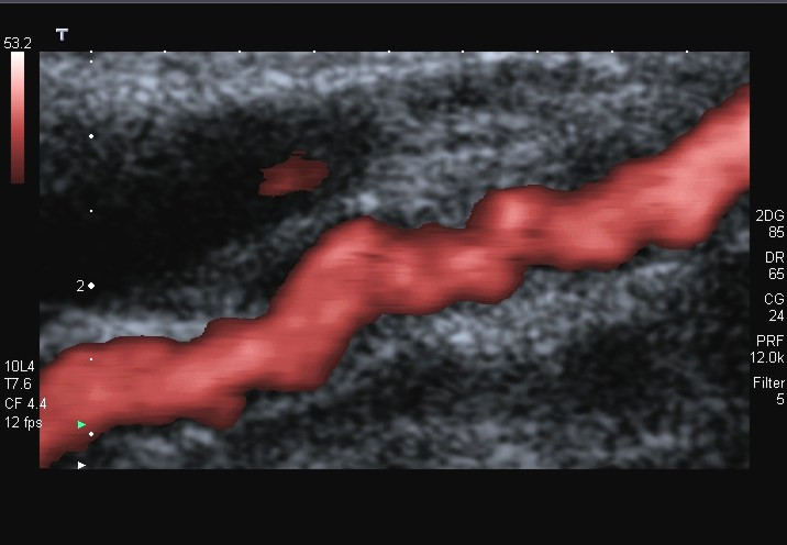 FMD of the ICA in a 53-year-old woman suffering from headache. Power Doppler image of the left ICA shows the string-of-beads pattern.